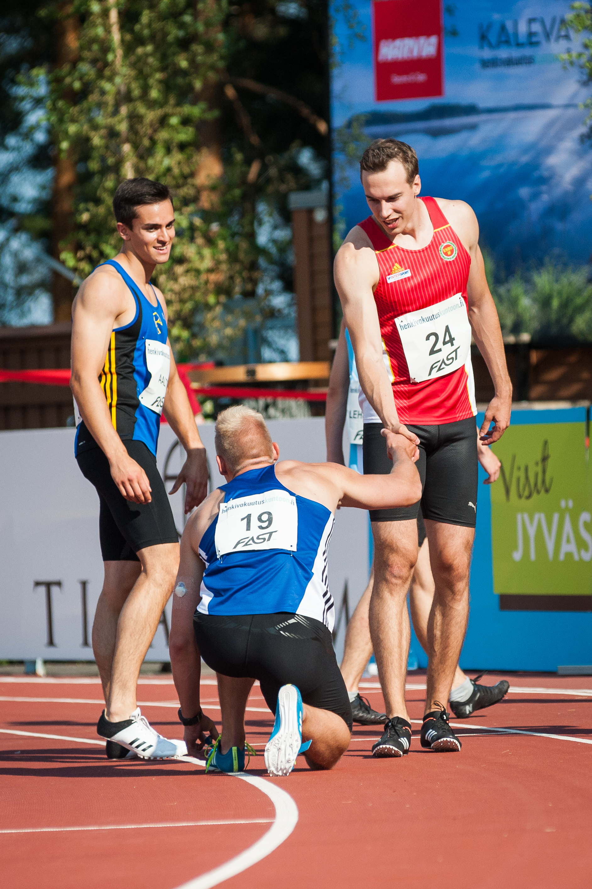 Men's 200 m competition at the 2018 Kalevan Kisat, the Finnish championships in athletics, in Jyväskylä, Finland. From left to right: Eljas Aalto, Aleksi Lehto, Roope Saarinen.